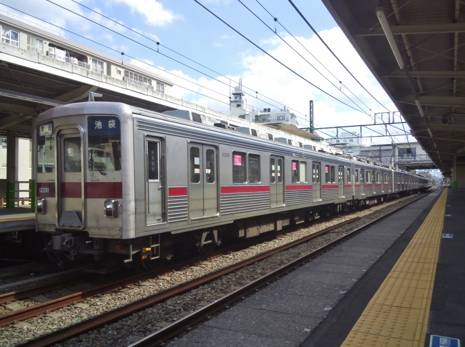 Tobu 10000 series 2-car EMU set 11201 at the rear of a 10-car formation on a Tobu Tojo Line all-stations "Local" service to Ikebukuro